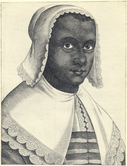 William Harris as the empress in Thomas Duffett's burlesque play The Empress of Morocco, 1673.